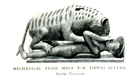 Illustration of Tipu's Tiger from page 1773 of A short history of the English people, Volume IV by John Richard Green, M. A. (Illustrated edition), edited by Mrs. J. R. Green and Miss Kate Norgate. Published 1903 by Macmillan in London, New York .